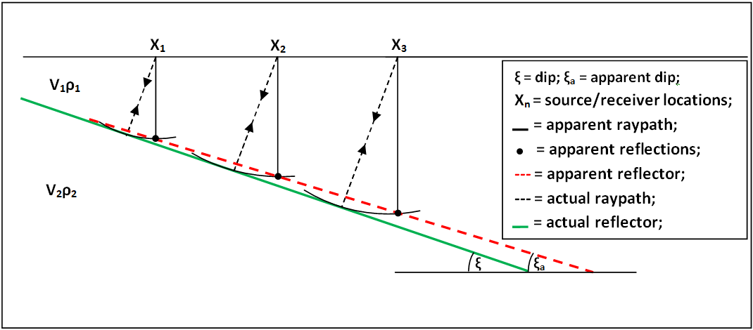 Diagram showing the zero-offset raypaths at a dipping reflector and the apparent reflector that results from it.